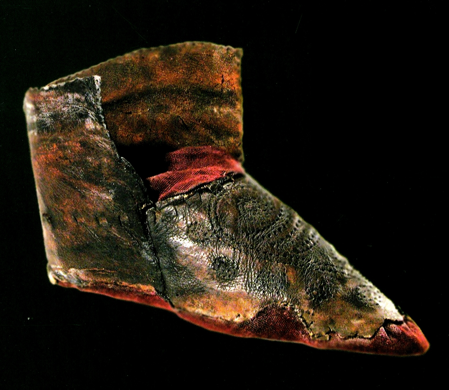 ORNAMENTAL SHOES. 12th с. Polatsk, Vitsiebsk region.